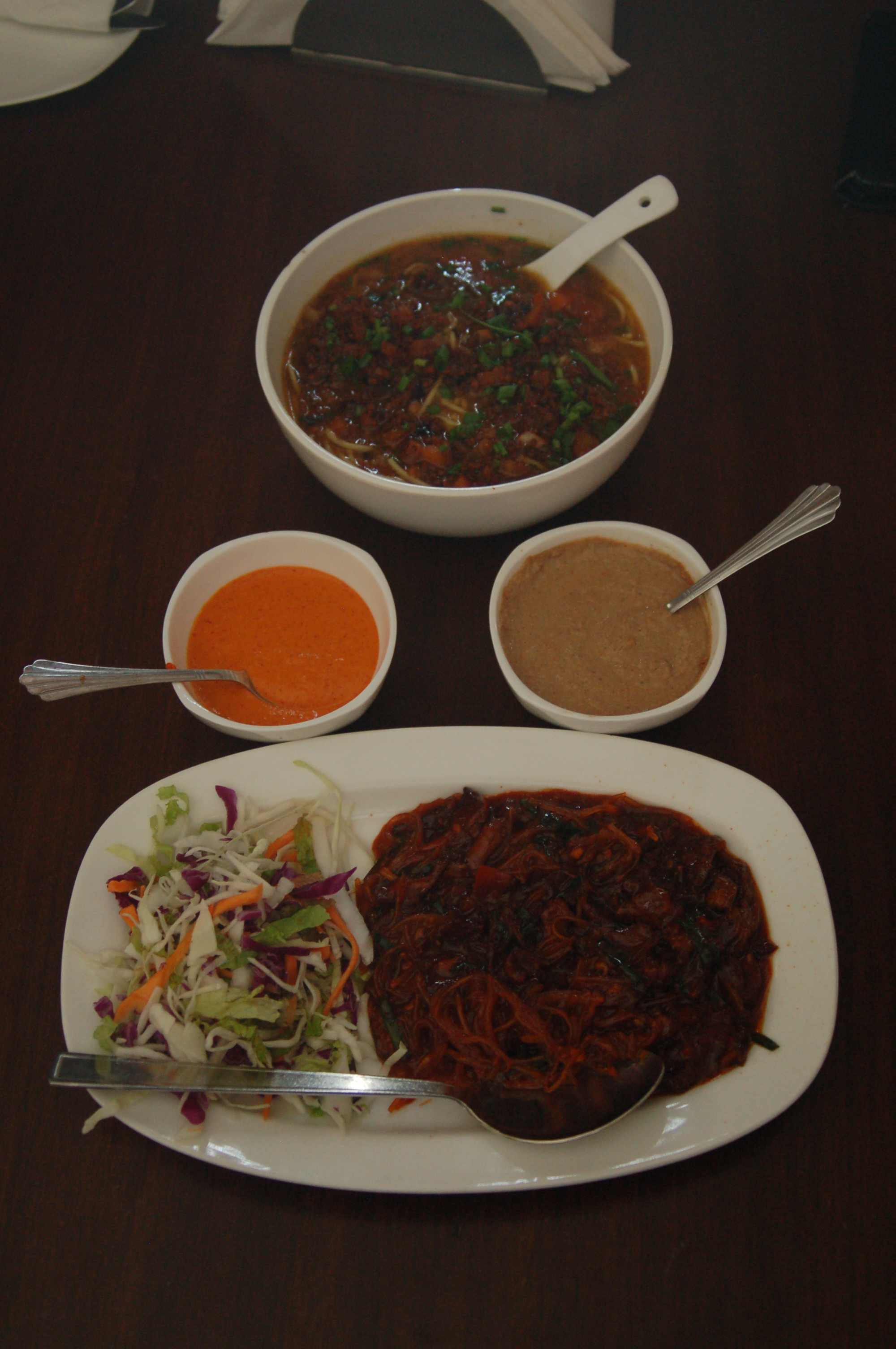 Had at Yeti